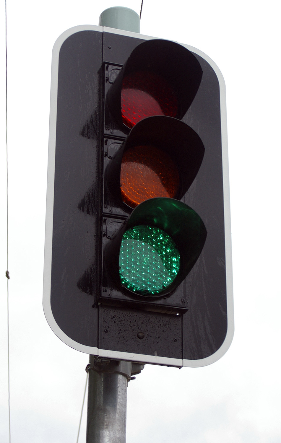 LED traffic light in Forest Hill, New South Wales.